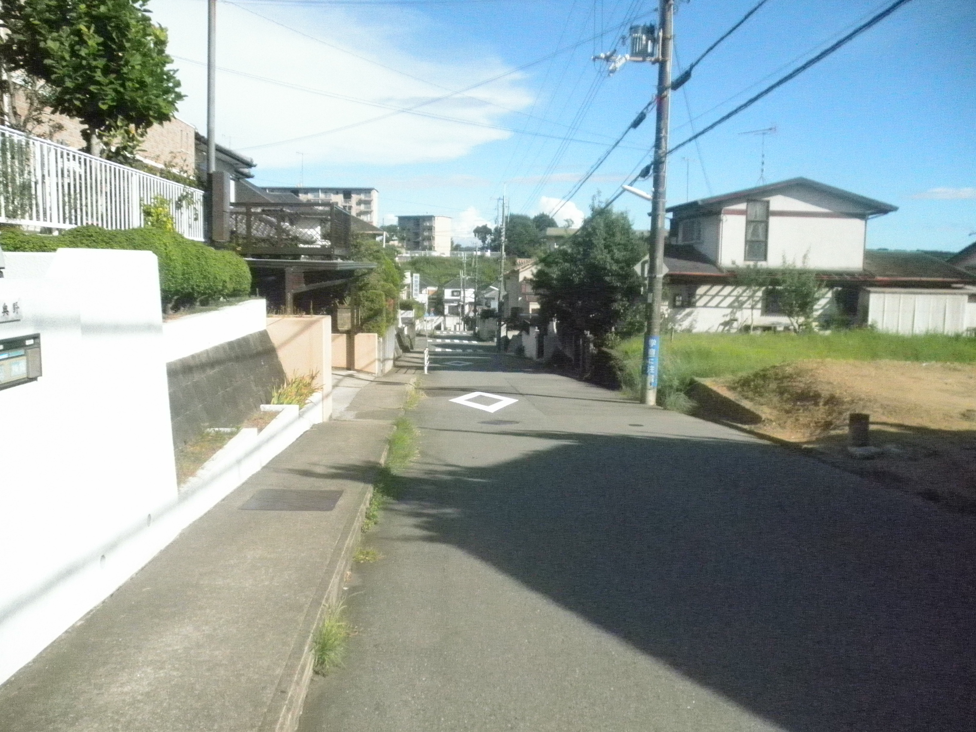 Fujimigaoka1 Nishi-ku Kobecity Hyogopref.JPG